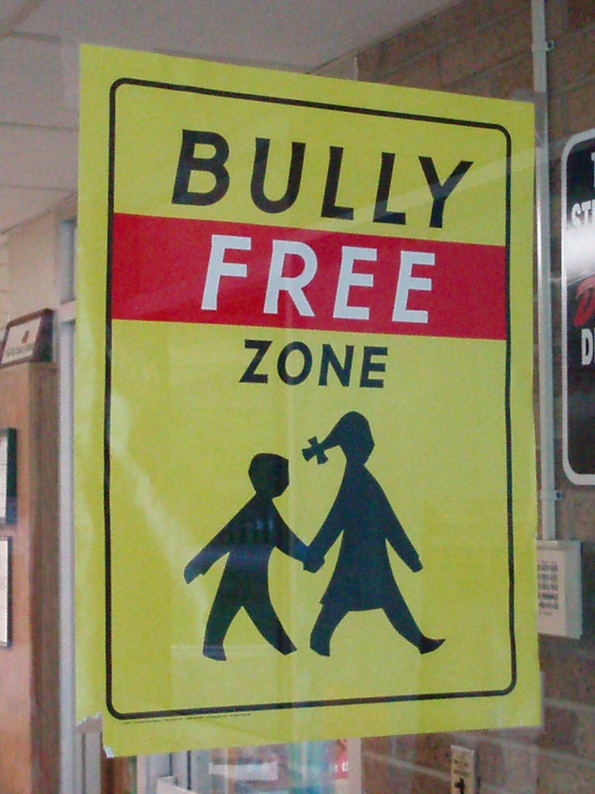 A Bully Free Zone sign - School in Berea, Ohio